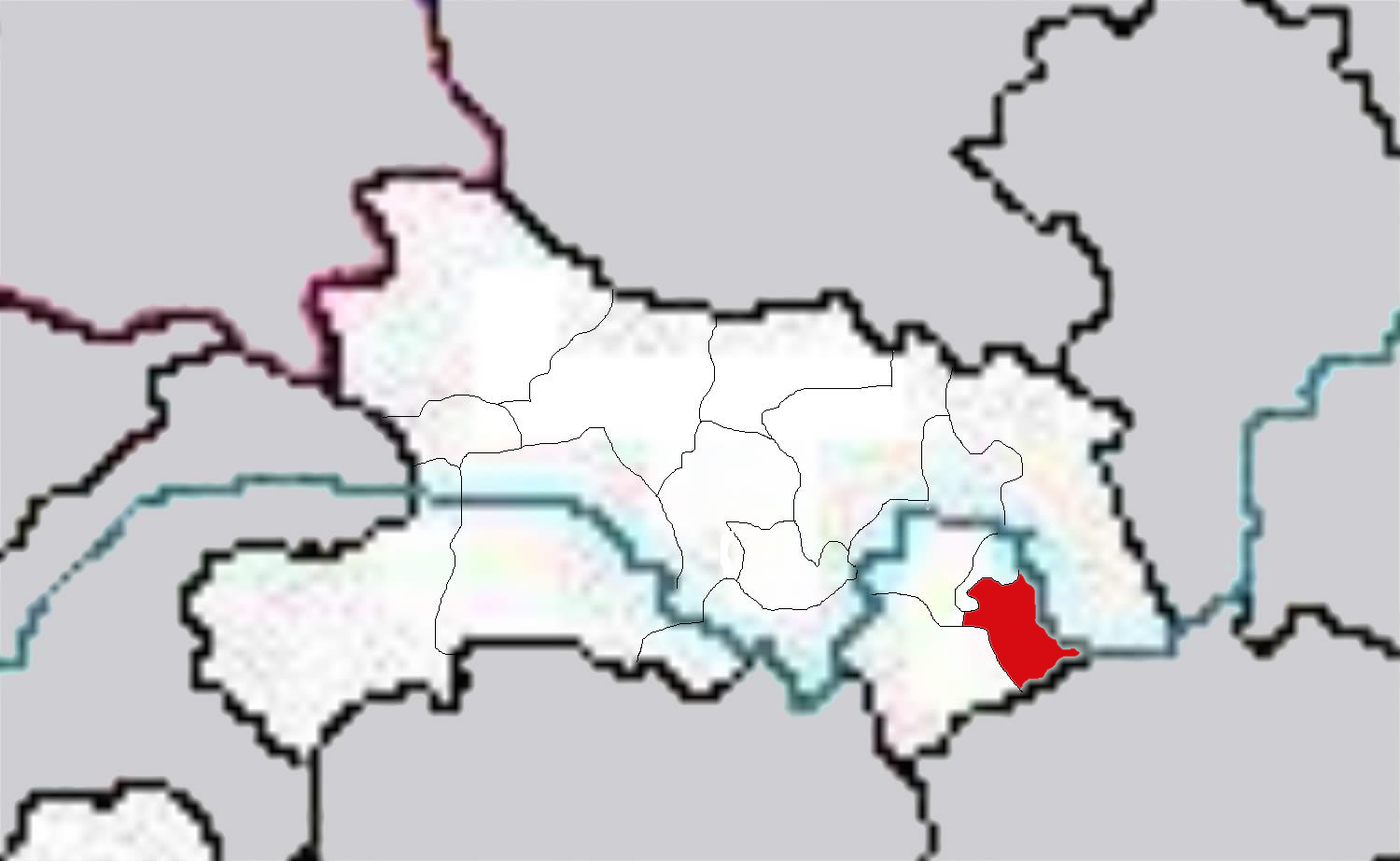 Maps of Hubei Province of China